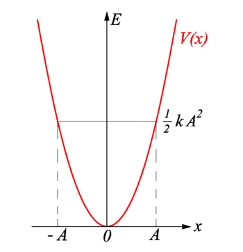 Quadratic (harmonic) potential of a particle